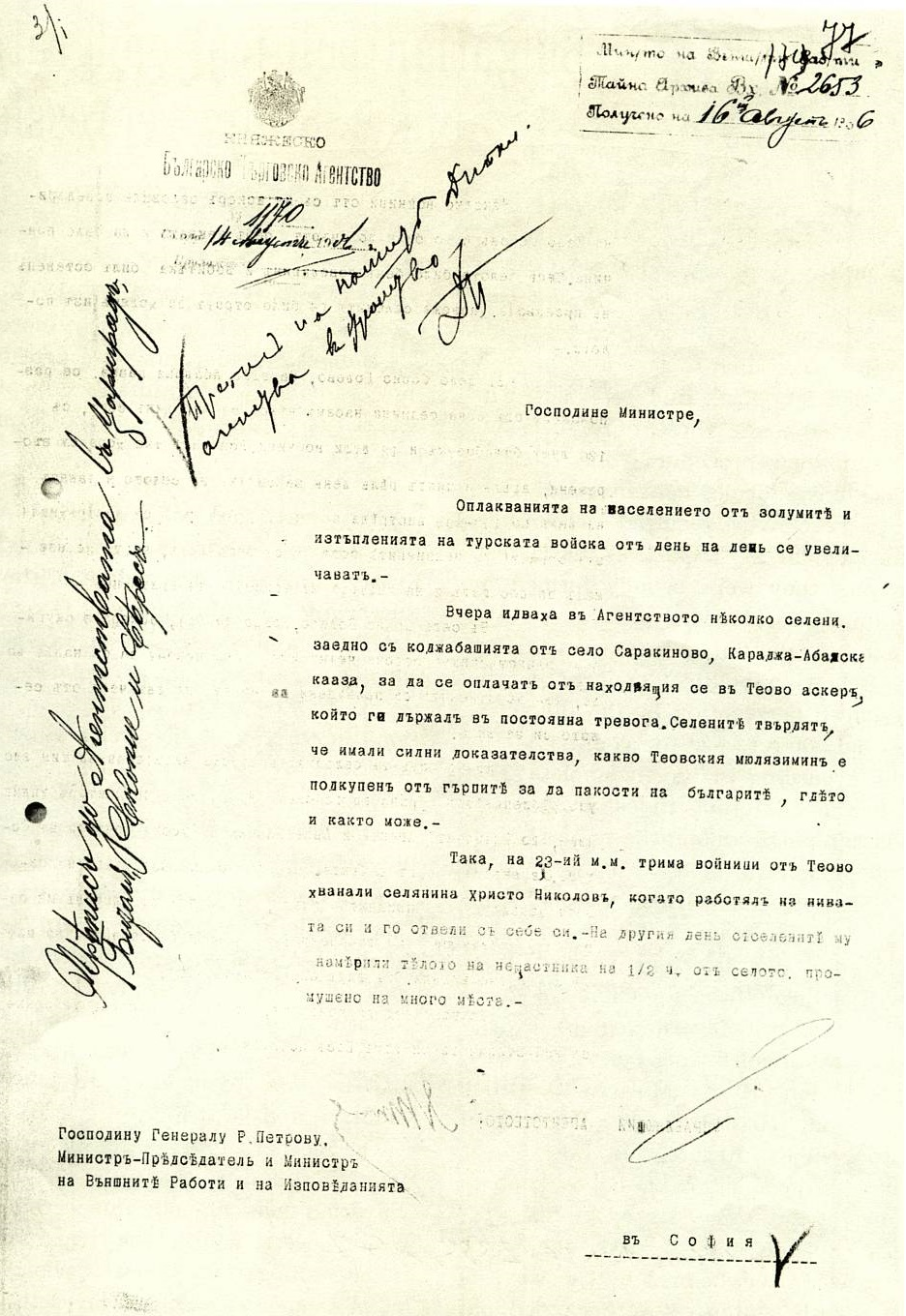 Report from the Bulgarian Trade Agency in Thessaloniki.